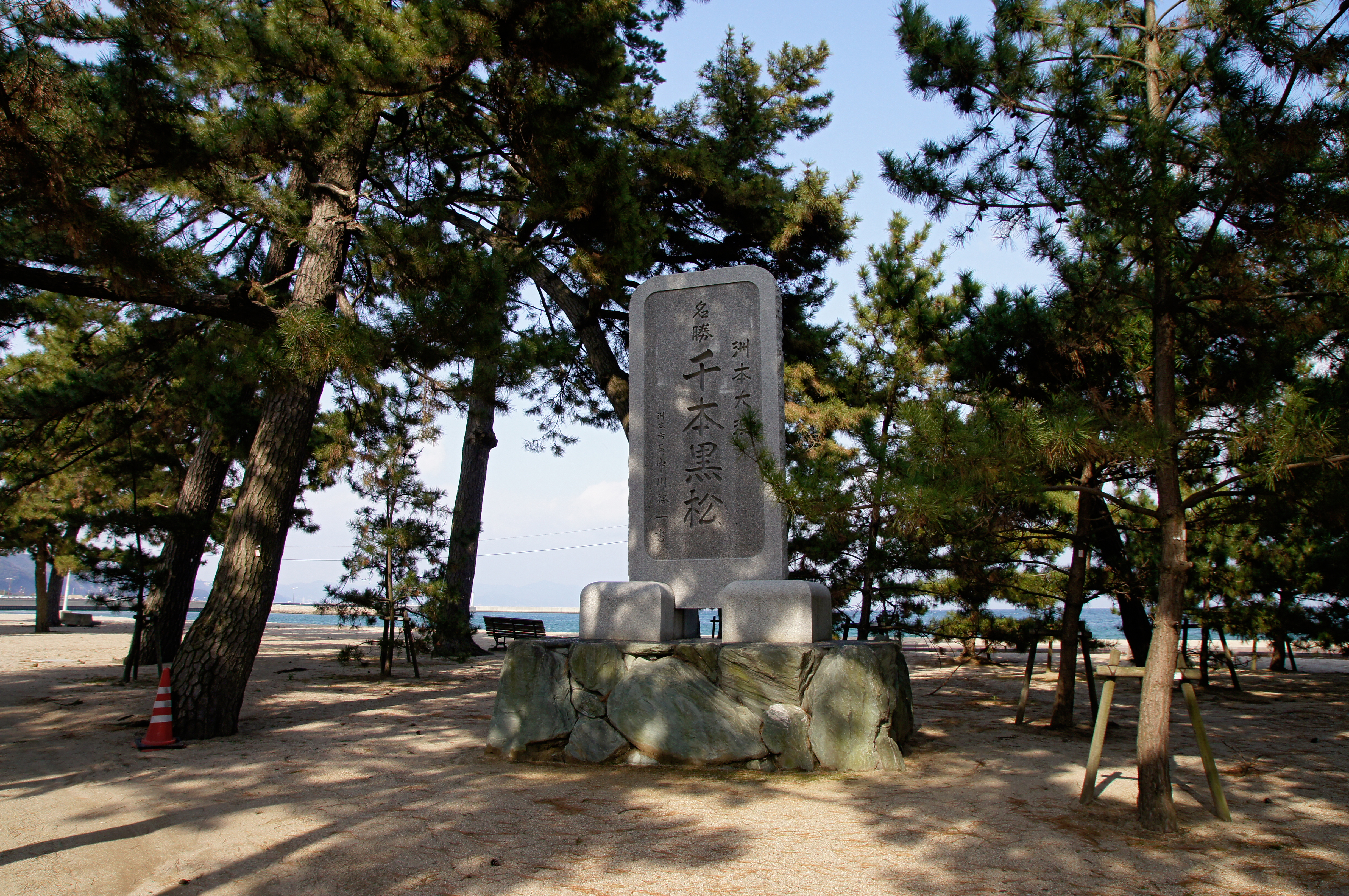 Ohama_Coast in Sumoto, Hyogo prefecture, Japan.